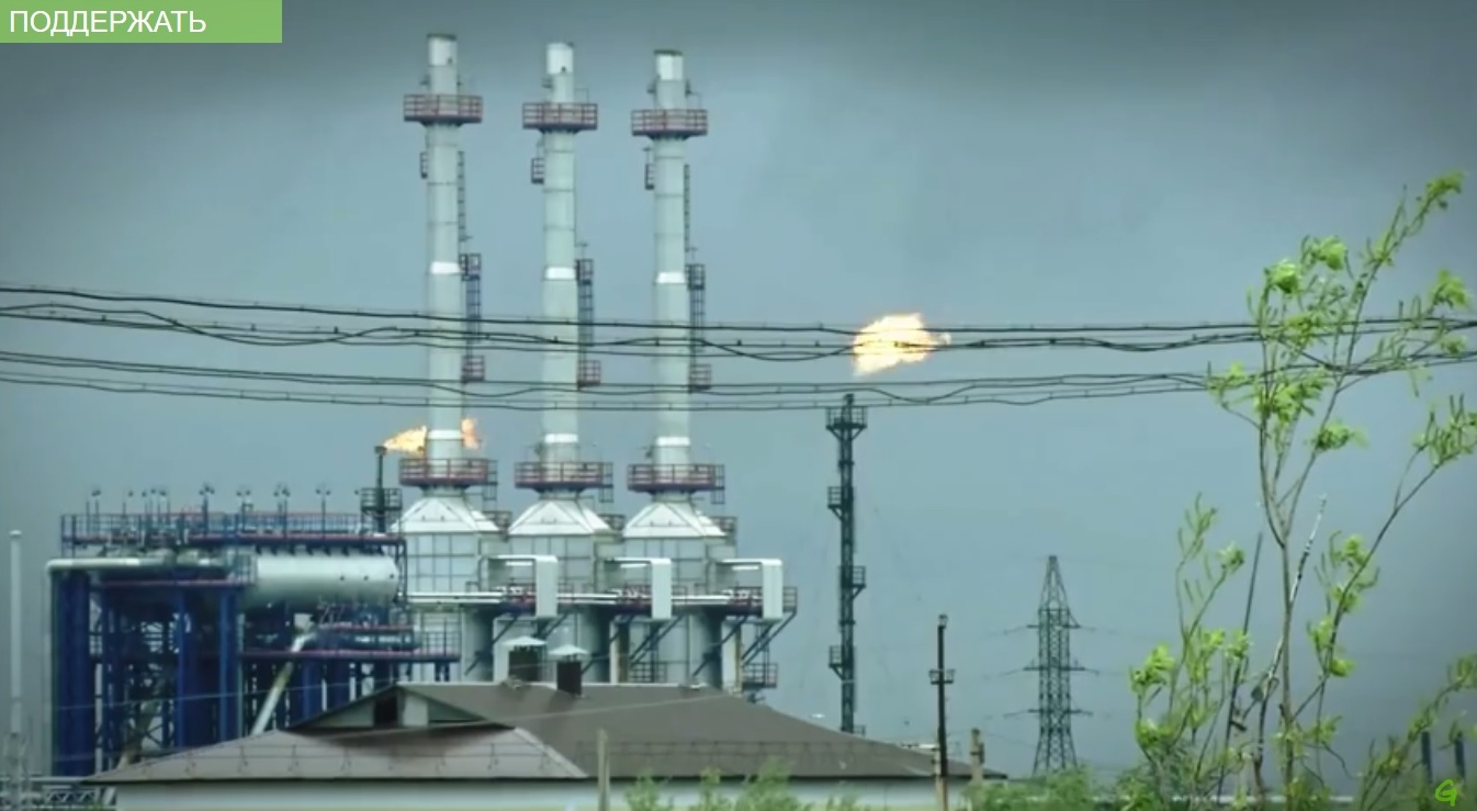 Gas flaring, Komi Republic. Situated on traditional territories of Komi Indigenous people, Russia.